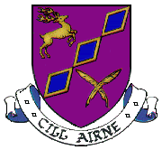 Coat of Arms of Killarney